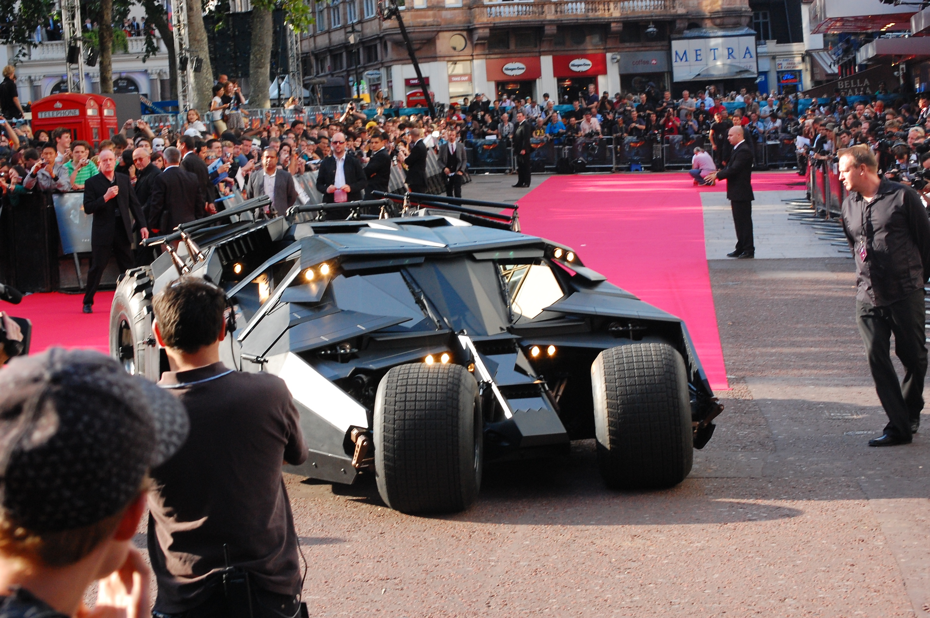 [Made it to spot #229 in Flickr Explore] The European premiere of The Dark Knight, in Leicester Square, London, UK.